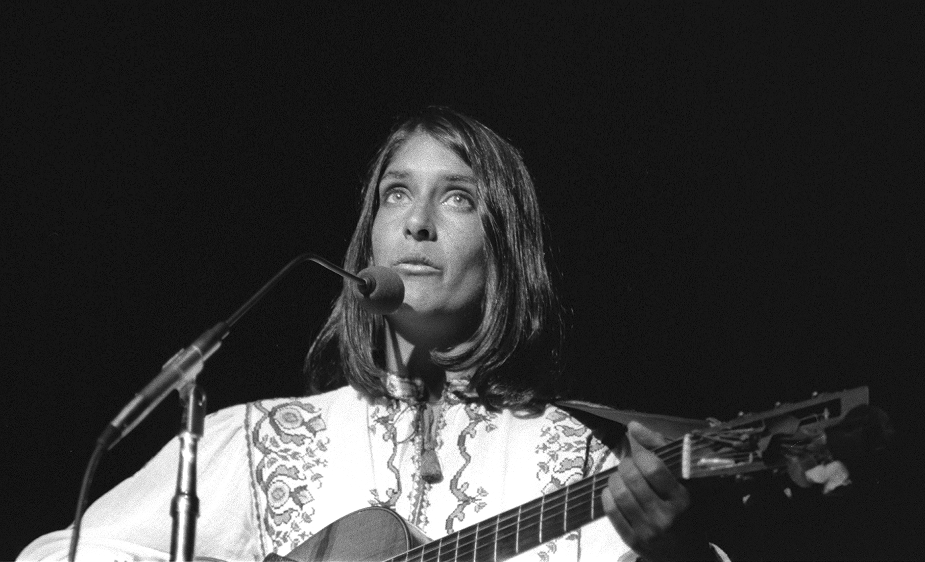 Bread and Roses benefit at the Berkeley Community Theater. Mimi Fariña, a guitarist, is the sister of Joan Baez.